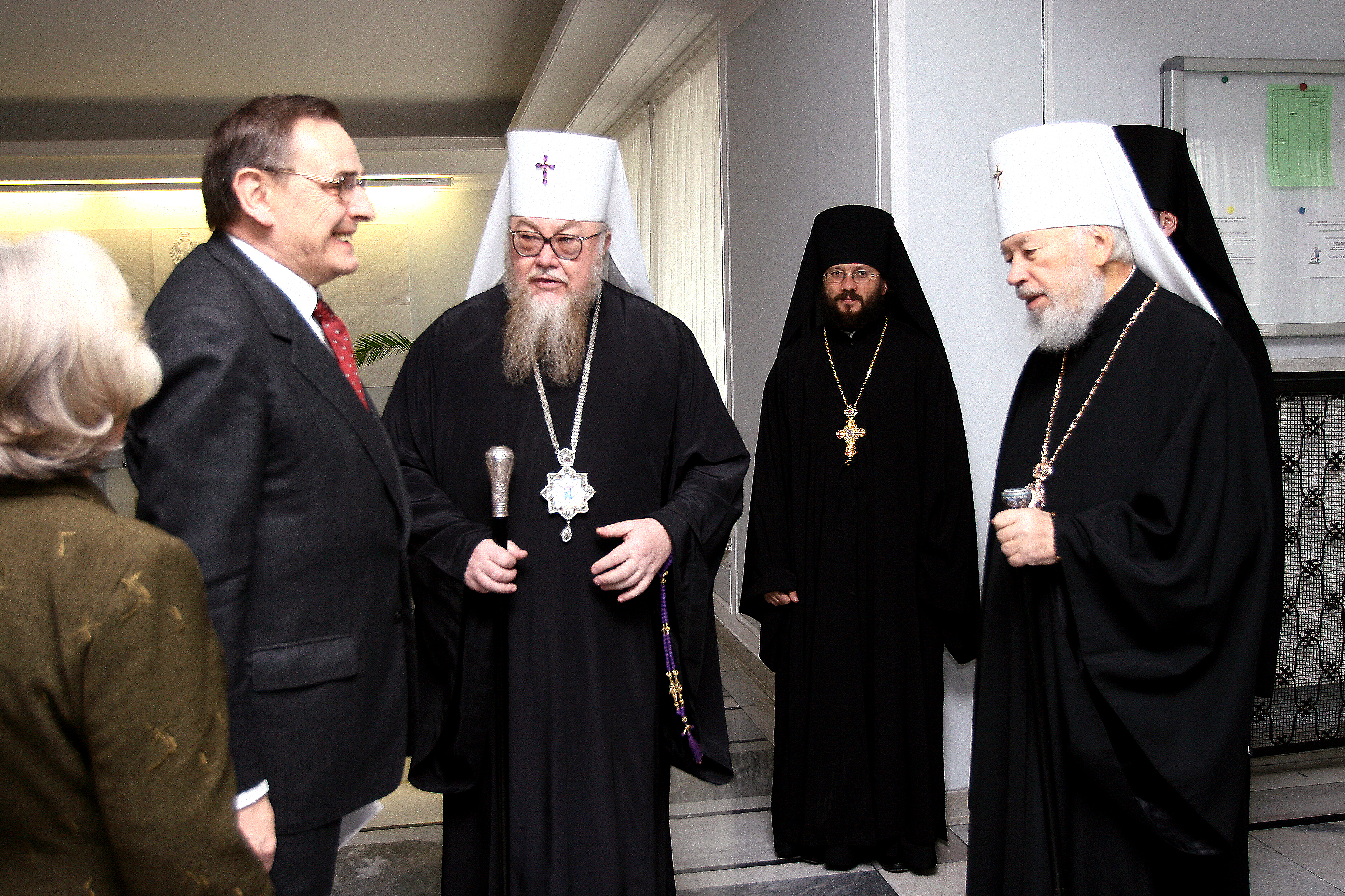 Metropolitan of Kiev and all Ukraine Vladimir in the Polish Senate